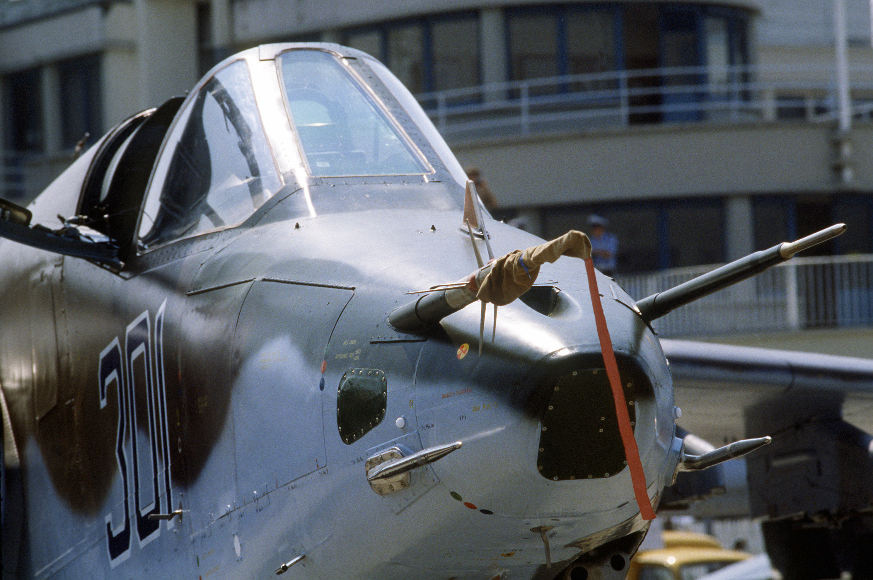 A close-up view of the nose section of a Soviet Su-25 Frogfoot aircraft on display at the 38th Paris International Air and Space Show at Le Bourget Airfield.